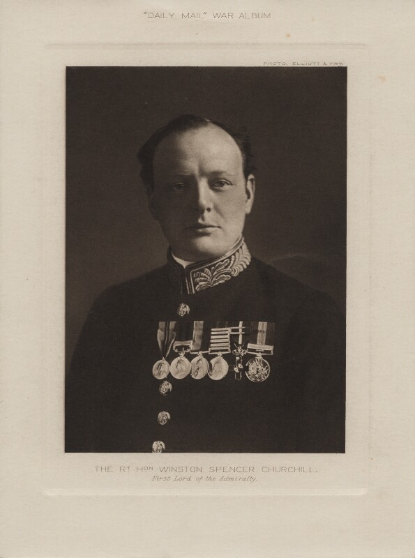 Winston Churchill. Photogravure, circa 1914